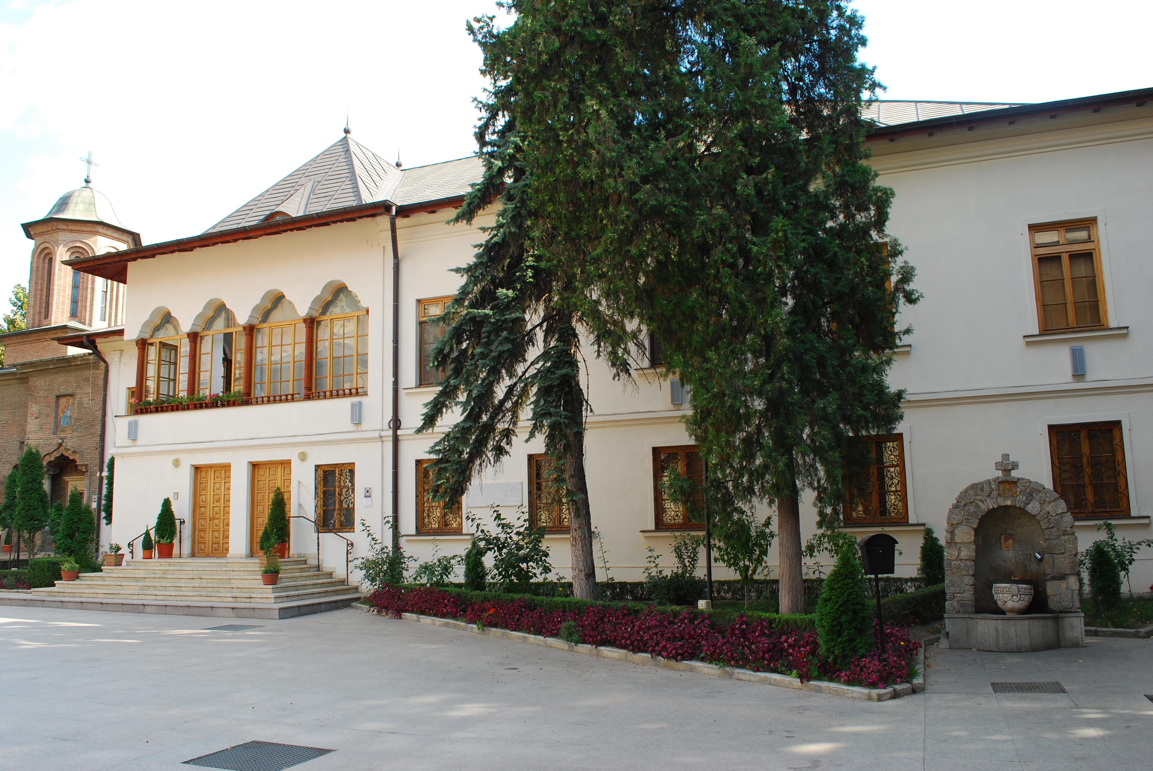 Priests' house at the Antim monastery in Bucharest, RomaniaRomână: Casă egumenească la mănăstirea Antim, Bucureşti, România 03